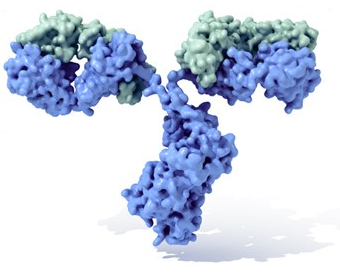 A 3D model of an Immunoglobulin molecule, showing heavy chains in blue and light chains in green. By the National Library of Medicine